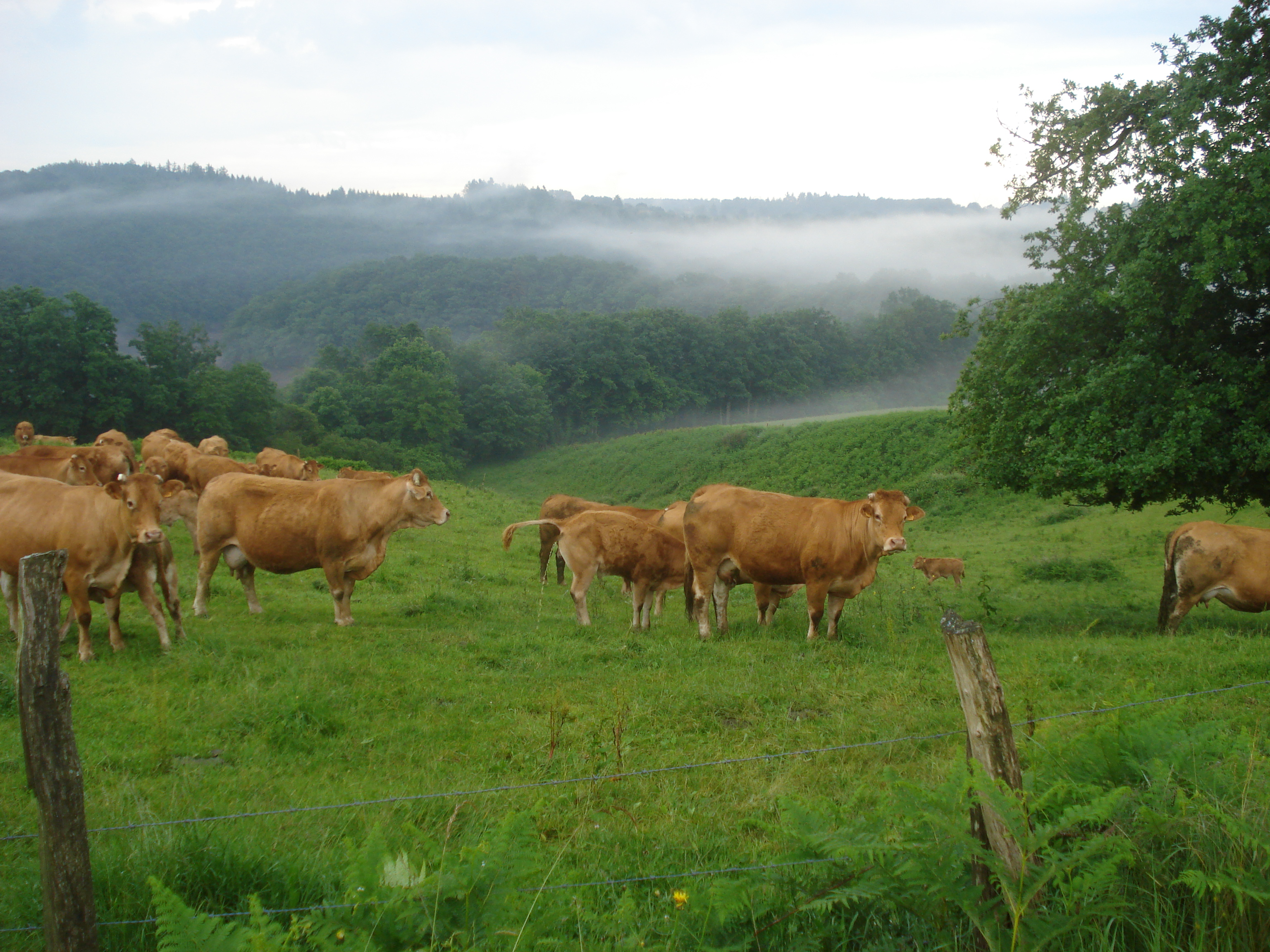 Saint-Laurent-les-Églises (Haute-Vienne, Fr), hilly landscape in the morning with Limousin cows